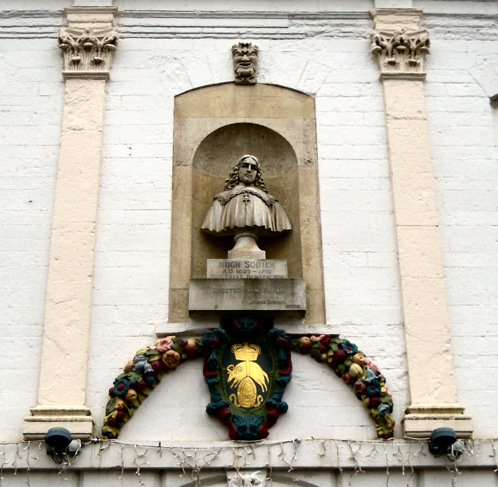 Bust of Hugh Squier (1625-1710) erected in 1910 on the front of the Guildhall in South Molton to mark the bi-centenary of his death